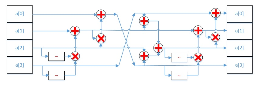 Gamma function of NOEKEON cipher